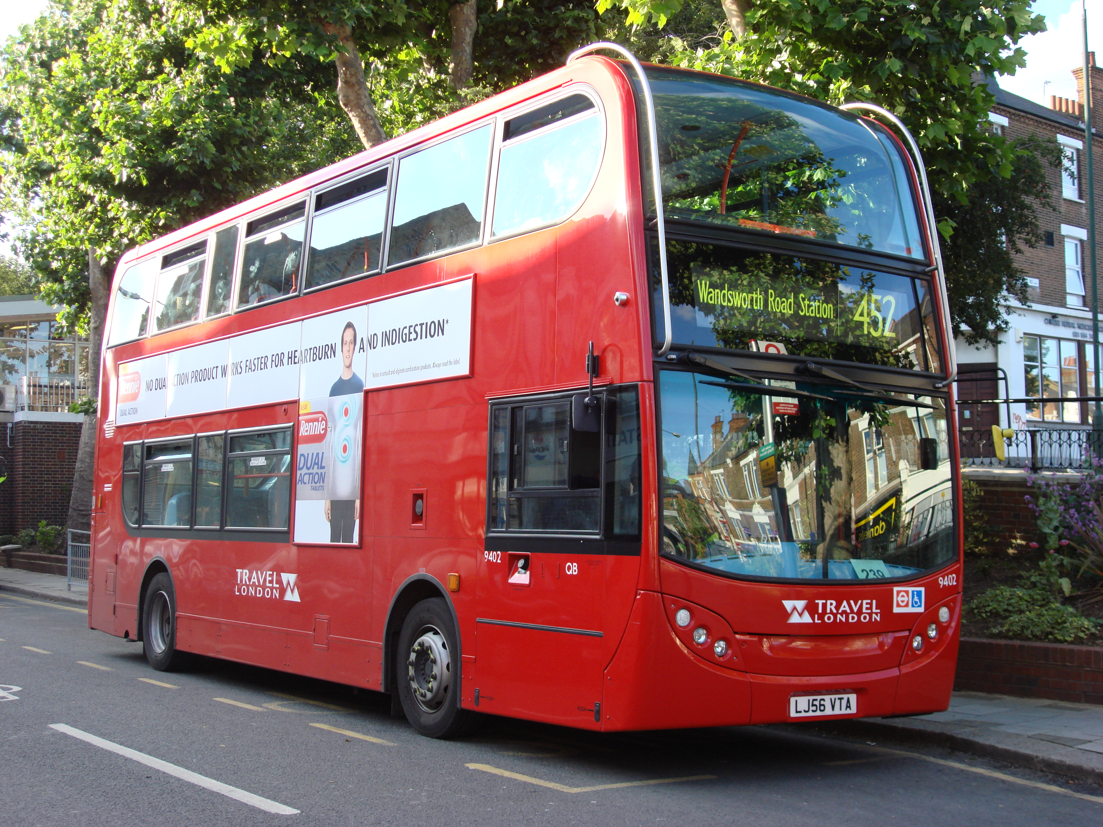 Travel London 9402 (LJ56 VTA) on London Buses route 452.